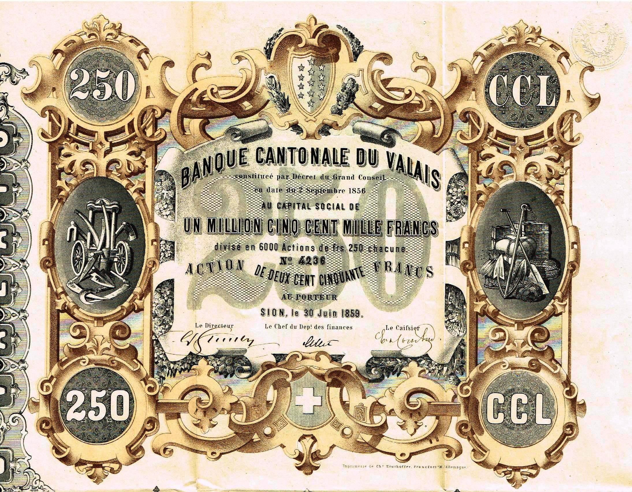 Share of the Banque Cantonale du Valais, issued 30. June 1859